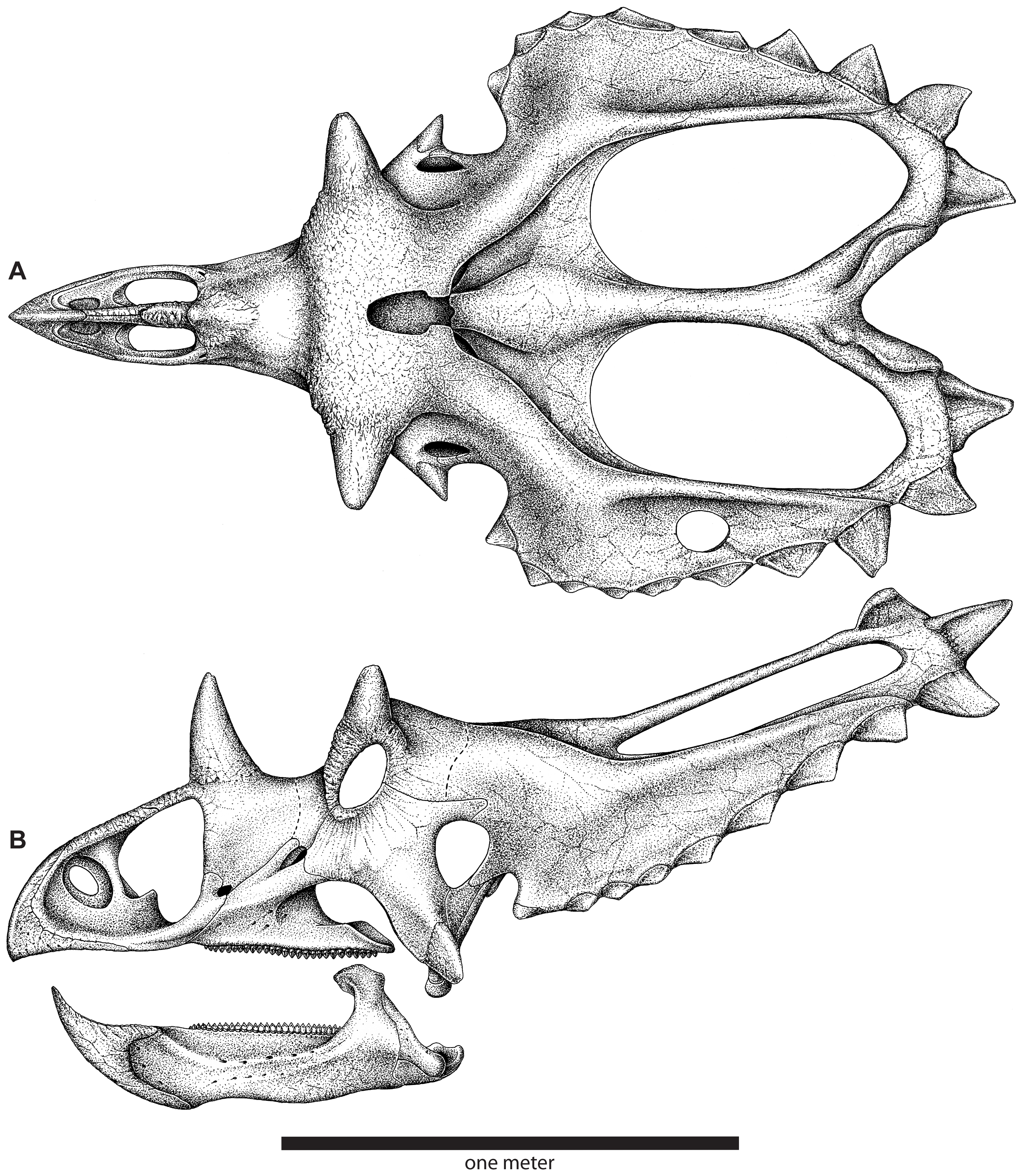 Original caption: "Skull reconstruction of Utahceratops gettyi n. gen. et n. sp. In dorsal (A) and lateral (B) views."